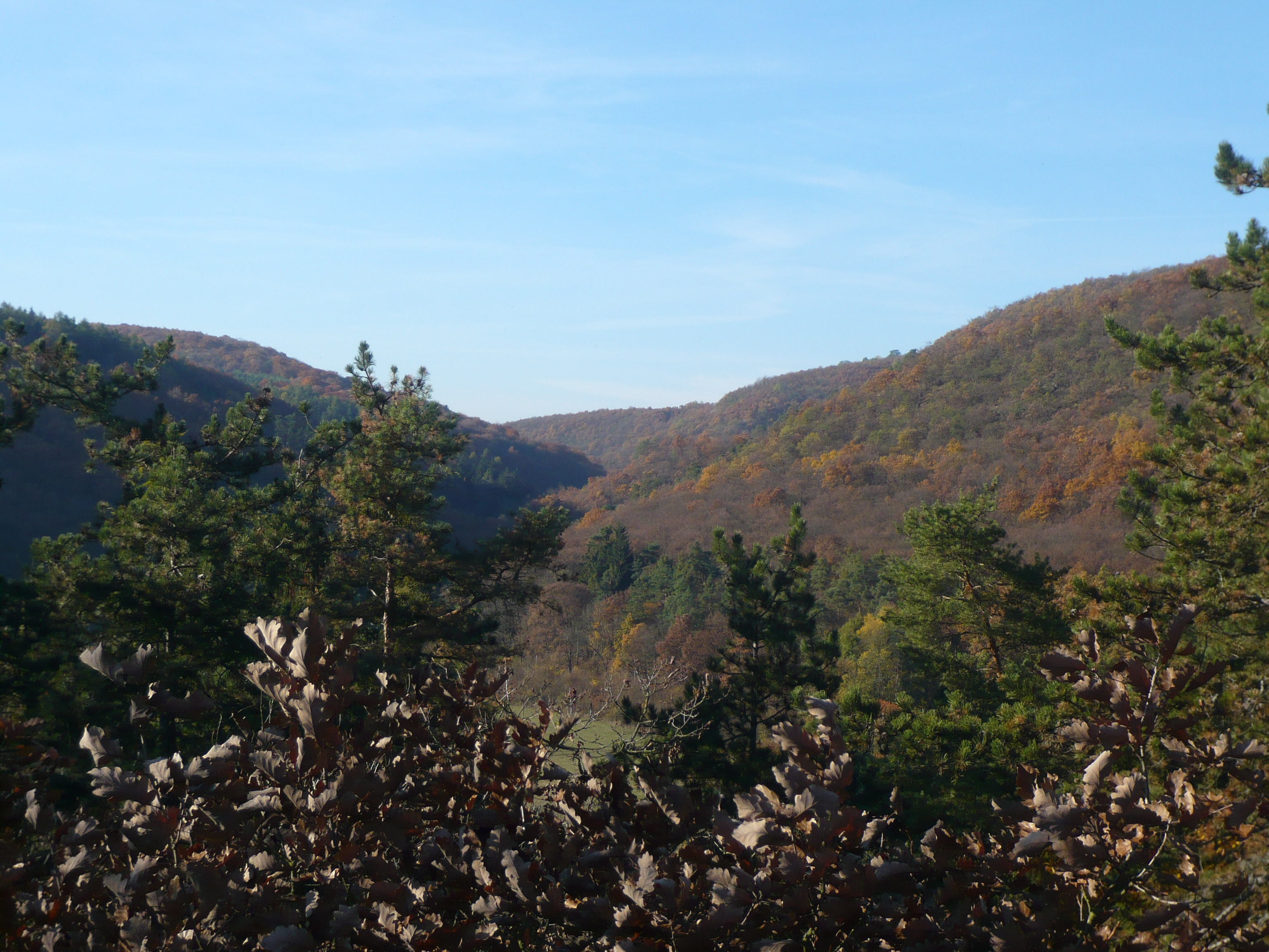 Pohled na údolí směrem od Berounky.